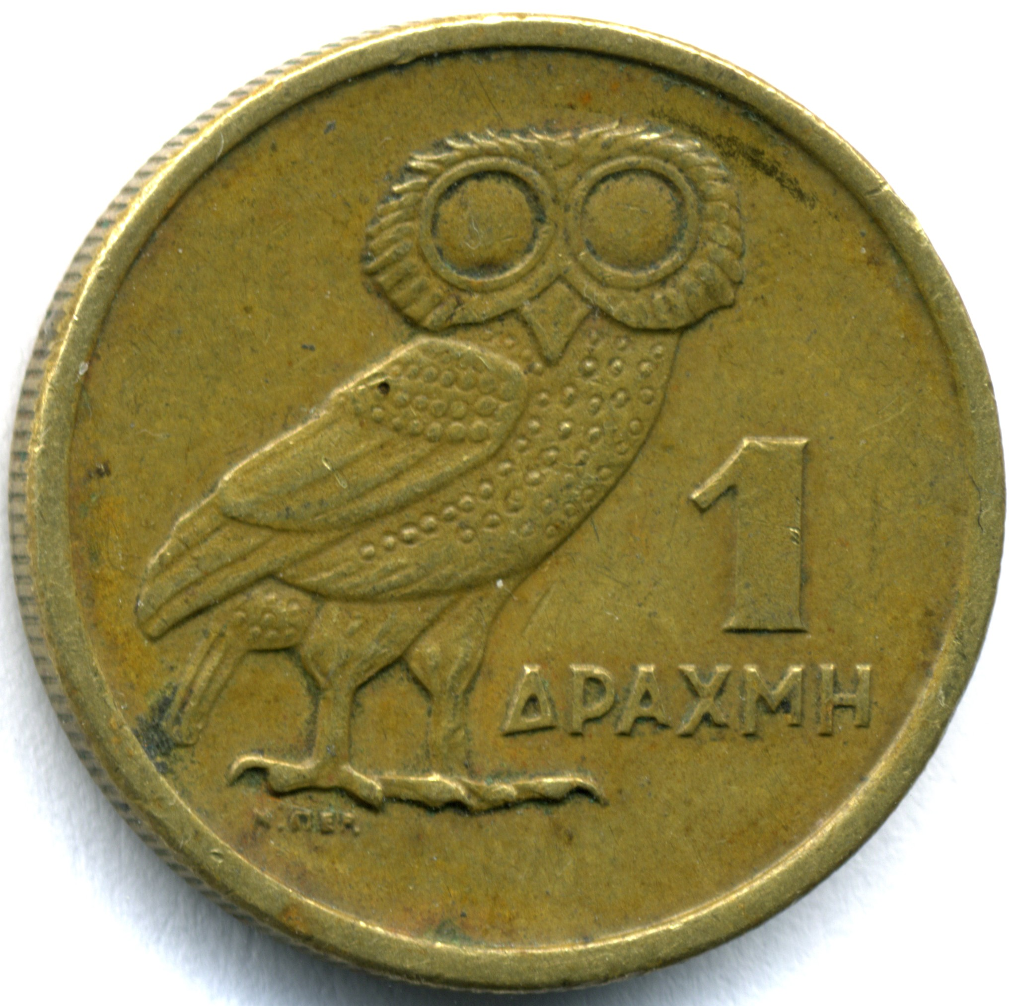 1973 Greek 1 drachma coin